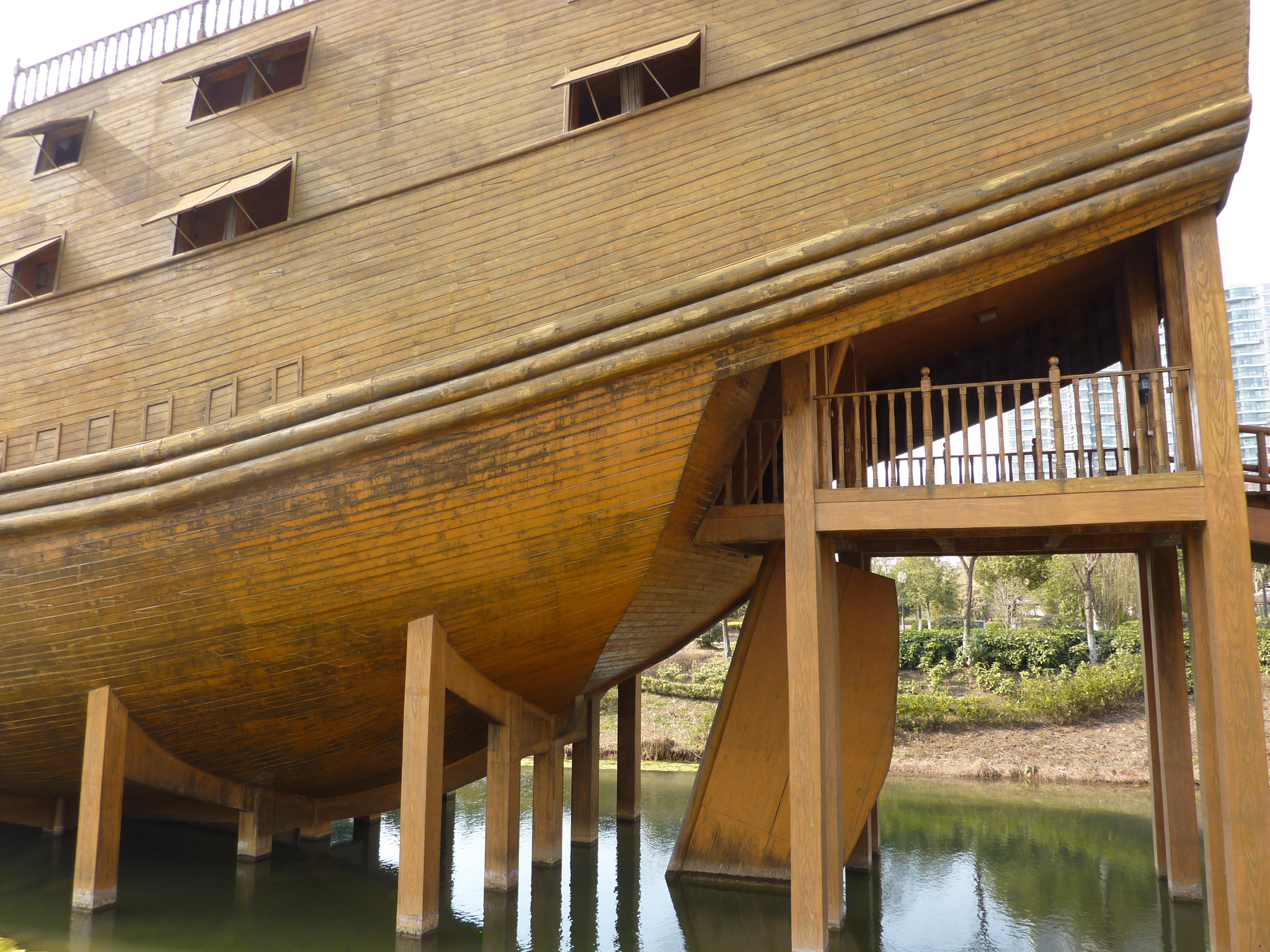 The model Treasure Ship at Nanjing Treasure Boat Shipyard